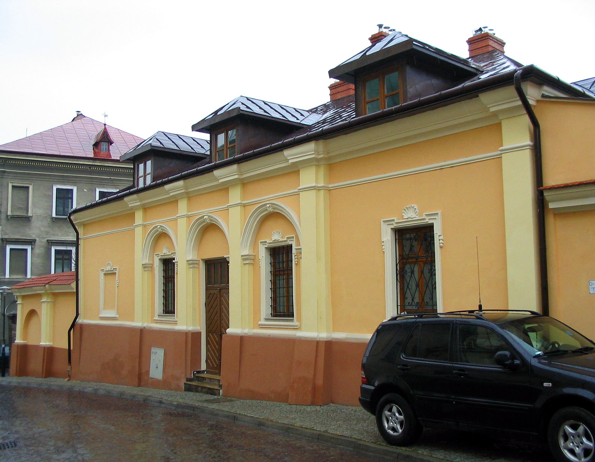 Residence of Stanisław Orzechowski - Zamkowa St, Przemyśl.